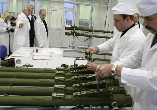 Prime Minister Vladimir Putin visited the Federal State Unitary Enterprise "Design Bureau of Machine Building" in Kolomna